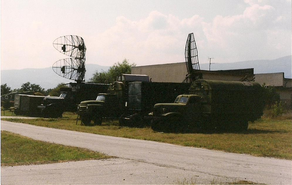 P-15 "Flat Face" radar on the left and PRV-11 "Side Net" radar on the right side. Other truks supposed to be longrange HF-radioset R-146 and mobile command post 9S44 "Krab" morde details on Exebitited at bulgarian Airforce Museum in Plovdov